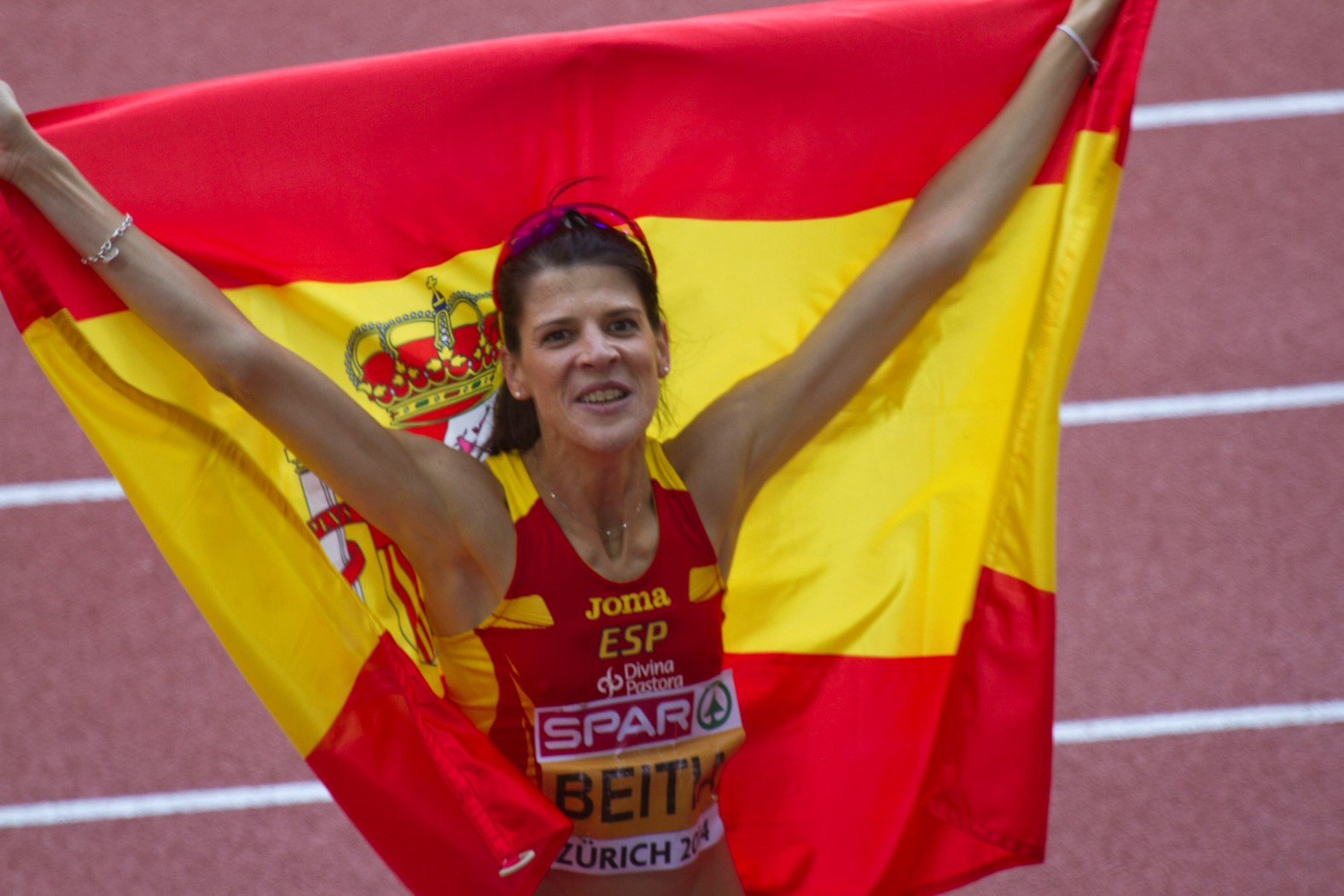 990766 ruth beitia